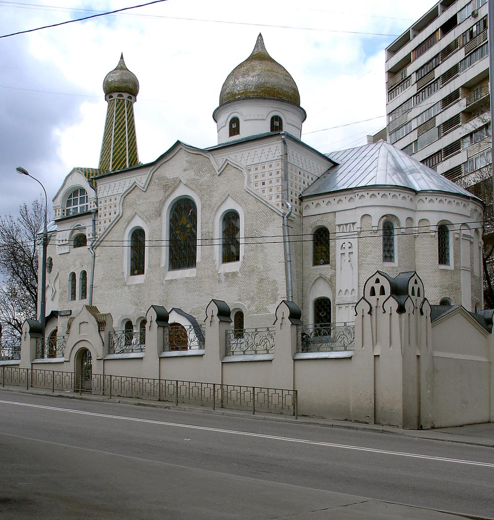 Old Believers church in Gavrikov Lane, Moscow, Russia. Designed and built in 1906-1911 by Ilya Bondarenko for Rogozhsko-Belokrinitskoye Soglasie denomination